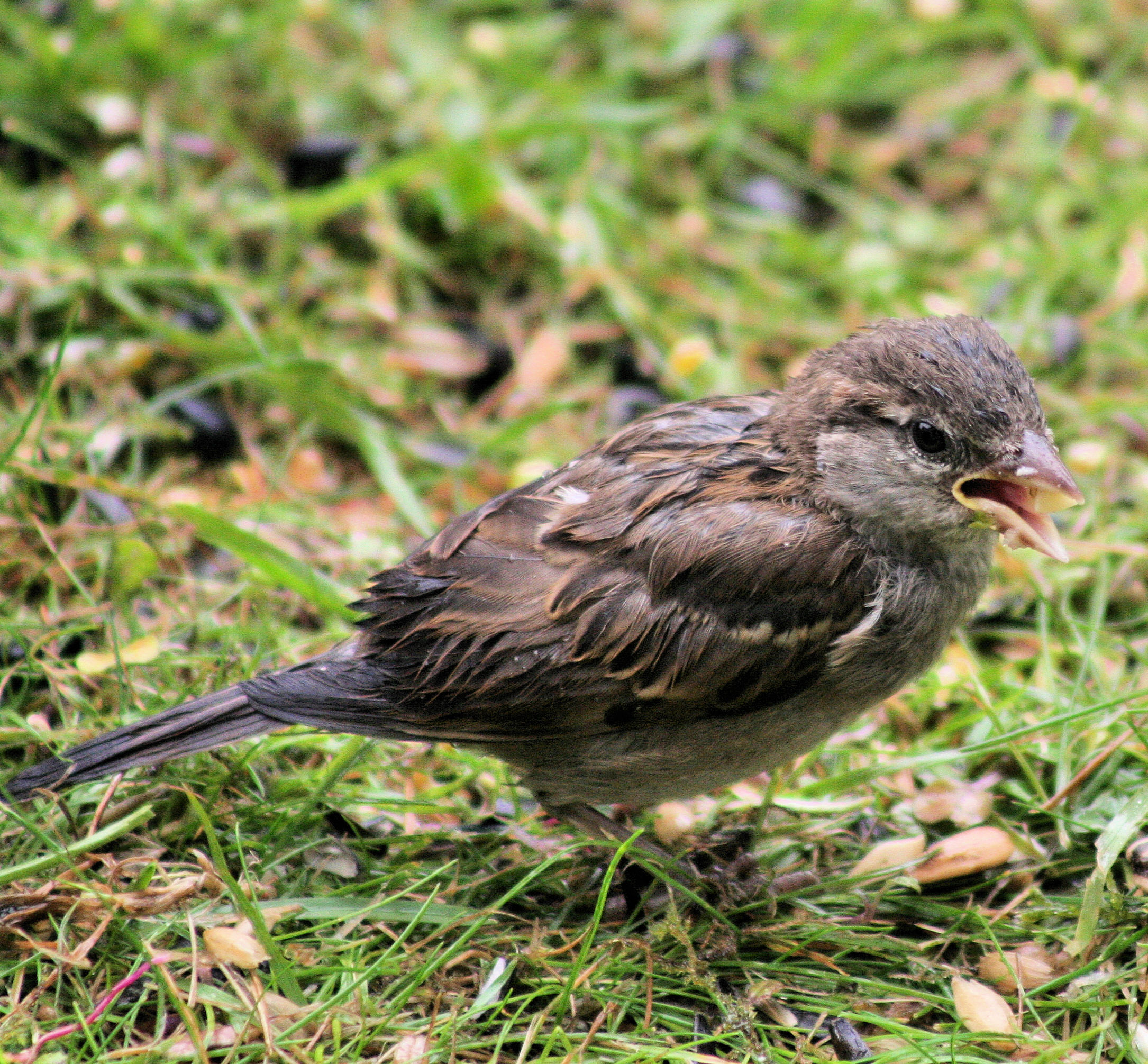 A young House Sparrow on a garden lawn in Sutherland, Dornoch, Scotland. It left the nest the day before with several other chicks. Its parents were close by and protective.